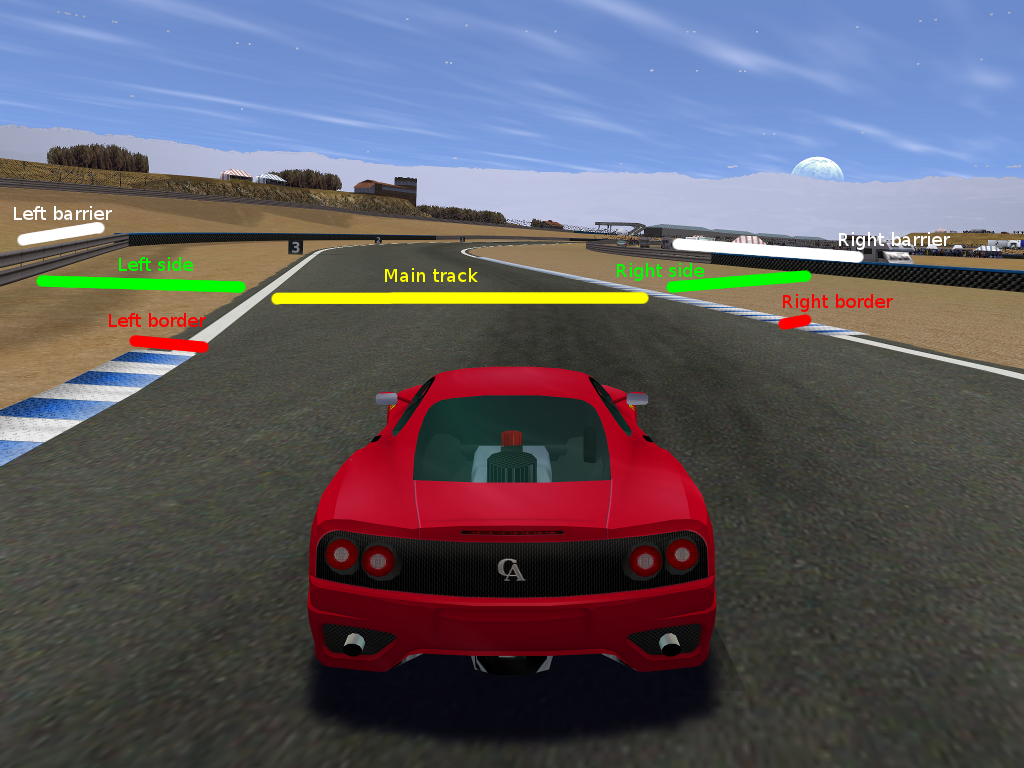 Layout of Speed Dreams track sections: main track (yellow), right/left borders (red), right/left sides (green), right/left barriers (white). Car: Supercar Cavallo 360 Track: Corkscrew This screenshot either does not contain copyright-eligible parts or visuals of copyrighted software, or the author has released it under a free license (which should be indicated beneath this notice), and as such follows the licensing guidelines for screenshots of Wikimedia Commons. You may use it freely according to its particular license. Free software license: This work is free software; you can redistribute it and/or modify it under the terms of the GNU General Public License as published by the Free Software Foundation; either version 2 of the License, or any later version. This work is distributed in the hope that it will be useful, but without any warranty; without even the implied warranty of merchantability or fitness for a particular purpose. See version 2 and version 3 of the GNU General Public License for more details. Copyleft: This work of art is free; you can redistribute it and/or modify it according to terms of the Free Art License. You will find a specimen of this license on the Copyleft Attitude site as well as on other sites. Note: if the screenshot shows any work that is not a direct result of the program code itself, such as a text or graphics that are not part of the program, the license for that work must be indicated separately.